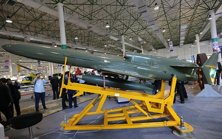 Karrar UAV seen at the 8th International Iran Air Show on Kish Island in the Persian Gulf.